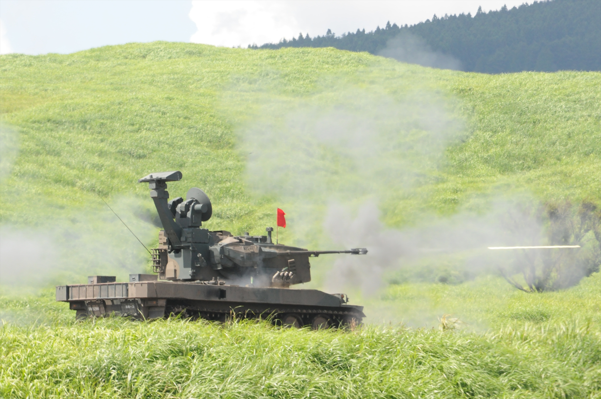 Title 87AW_006_R.JPG Album 富士総合火力演習・そうかえん 前段演習・対空火力（８７式自走高射機関砲）